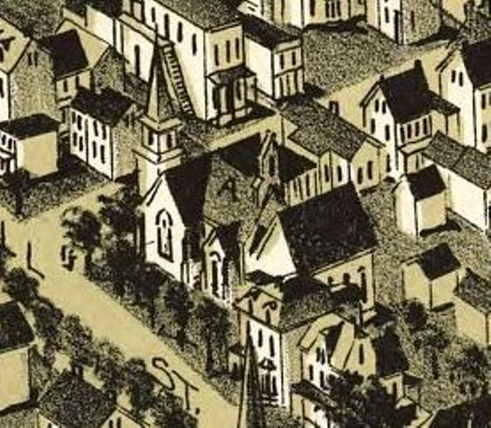 St. Michael's Protestant Episcopal Church, Church & Mill Streets, Birdsboro, Pennsylvania. Detail of an 1890 panoramic view.